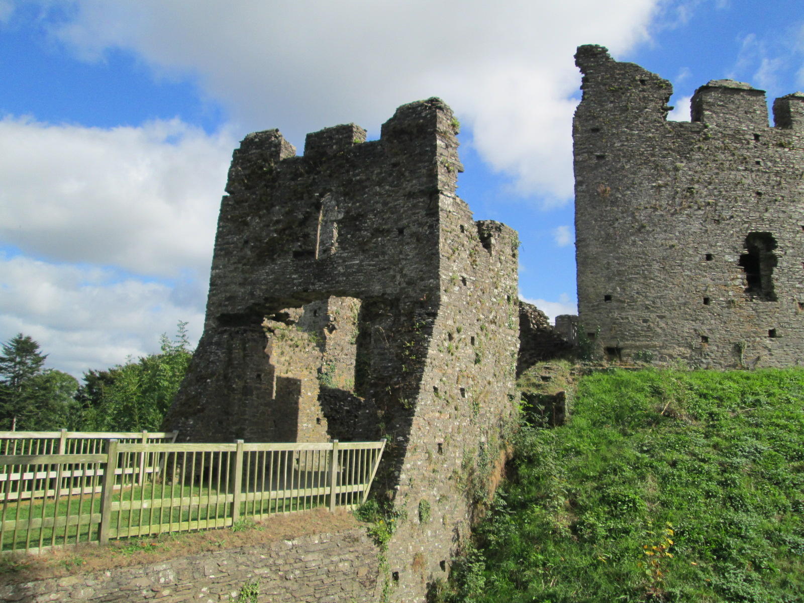 The gatehouse of Restormel Castle, from outside the castle.